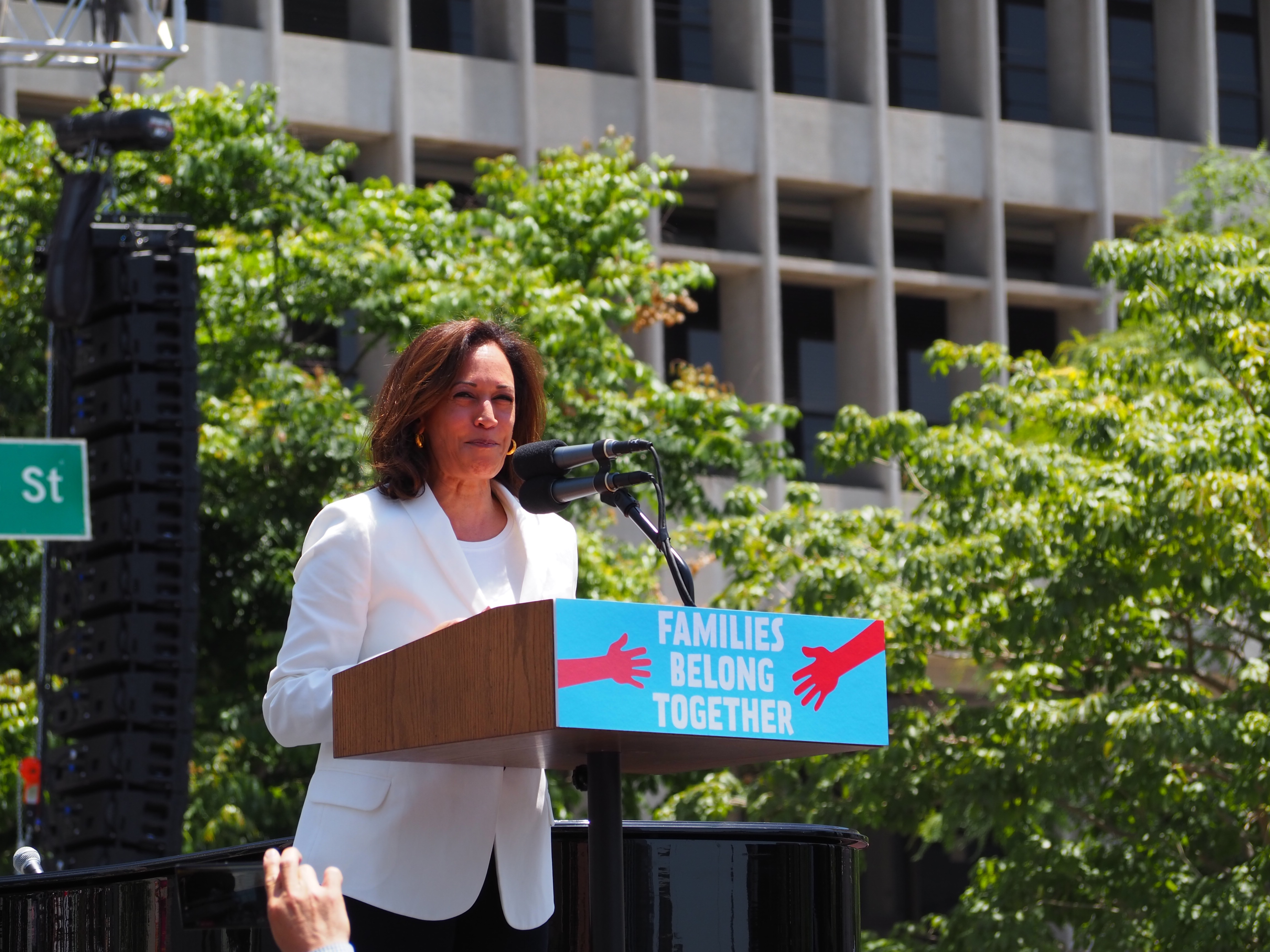 U.S. Sen. Kamala Harris speaks at L.A.'s Families Belong Together March in June 2018